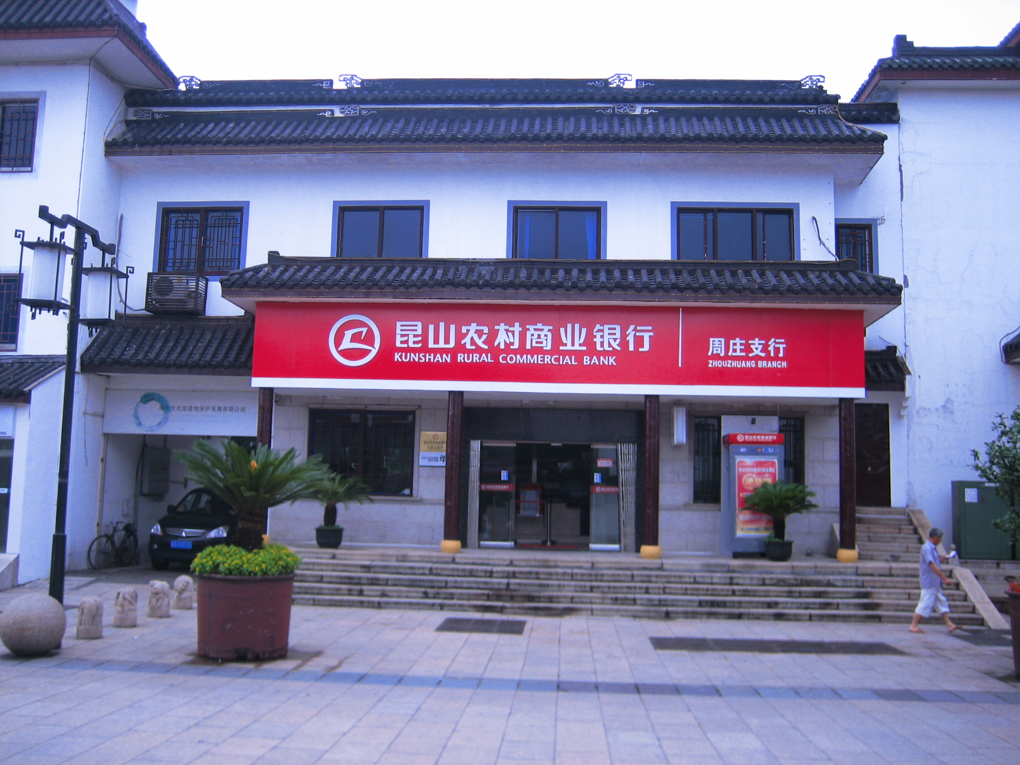 Zhouzhuang Branch of Kunshan Rural Commercial Bank